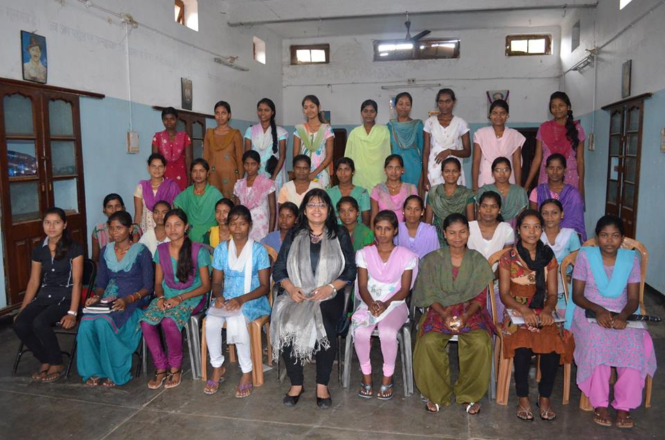 Village Level Mentoring of Tribal Girls in Chandwa, Jharkhand